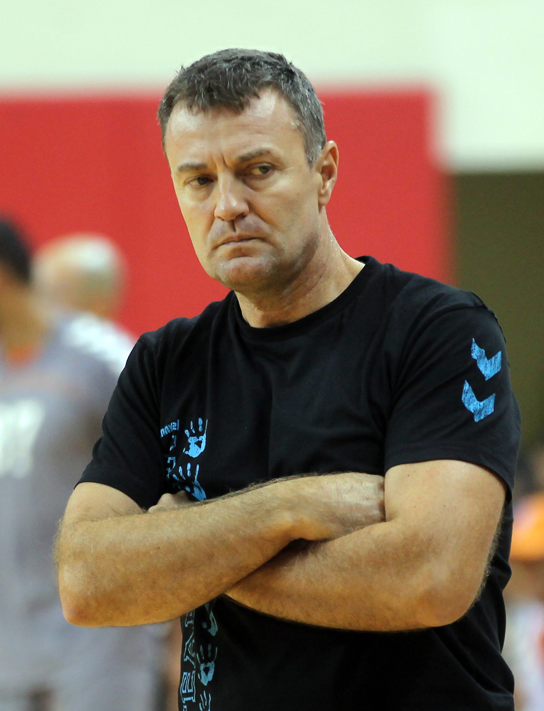 El Jaish's Croatian coach Ivica Obrvan during his team's training session. Picture by Mohan